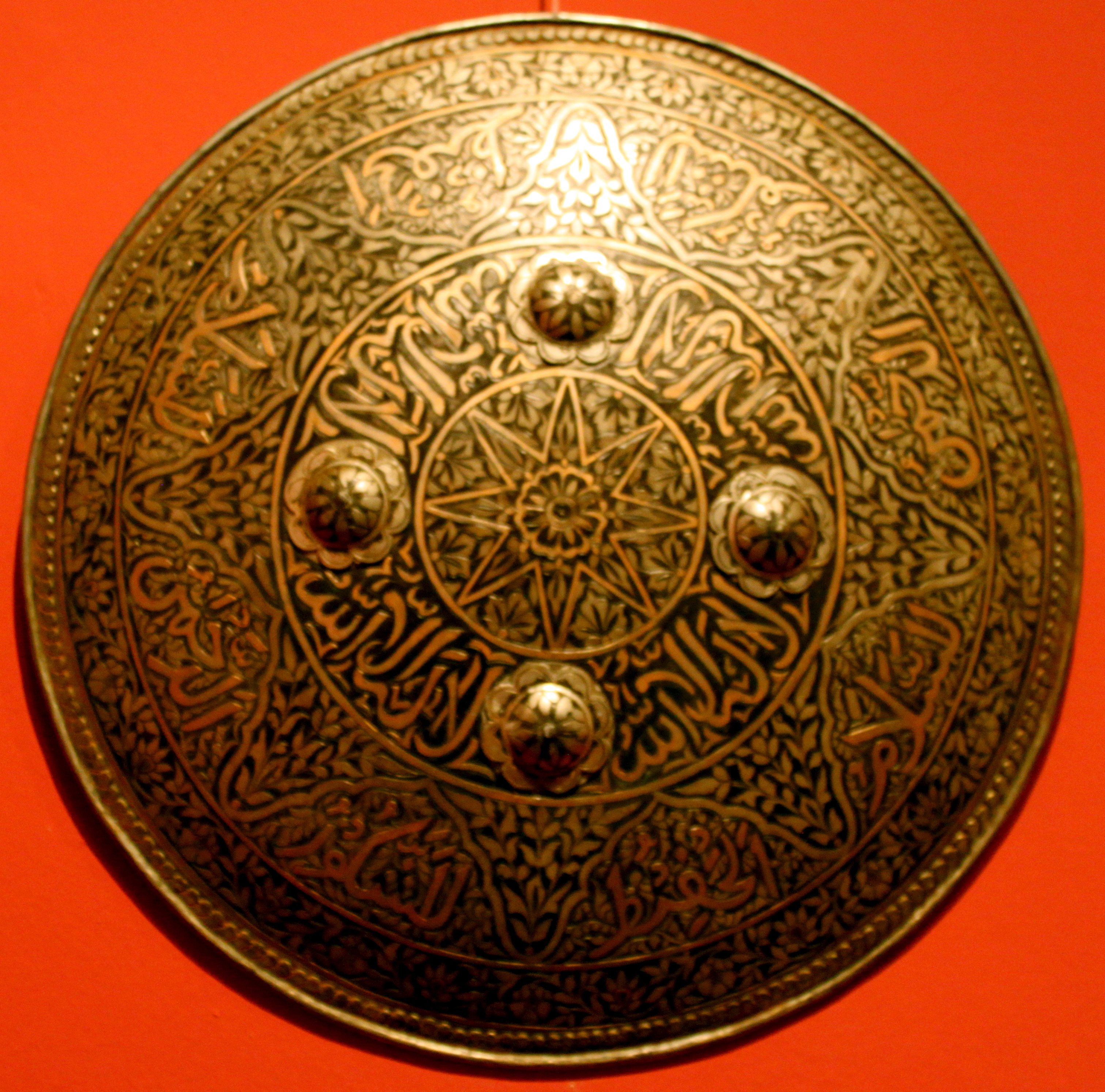 Medieval azerbaijani shield (Khanate of Tabriz)